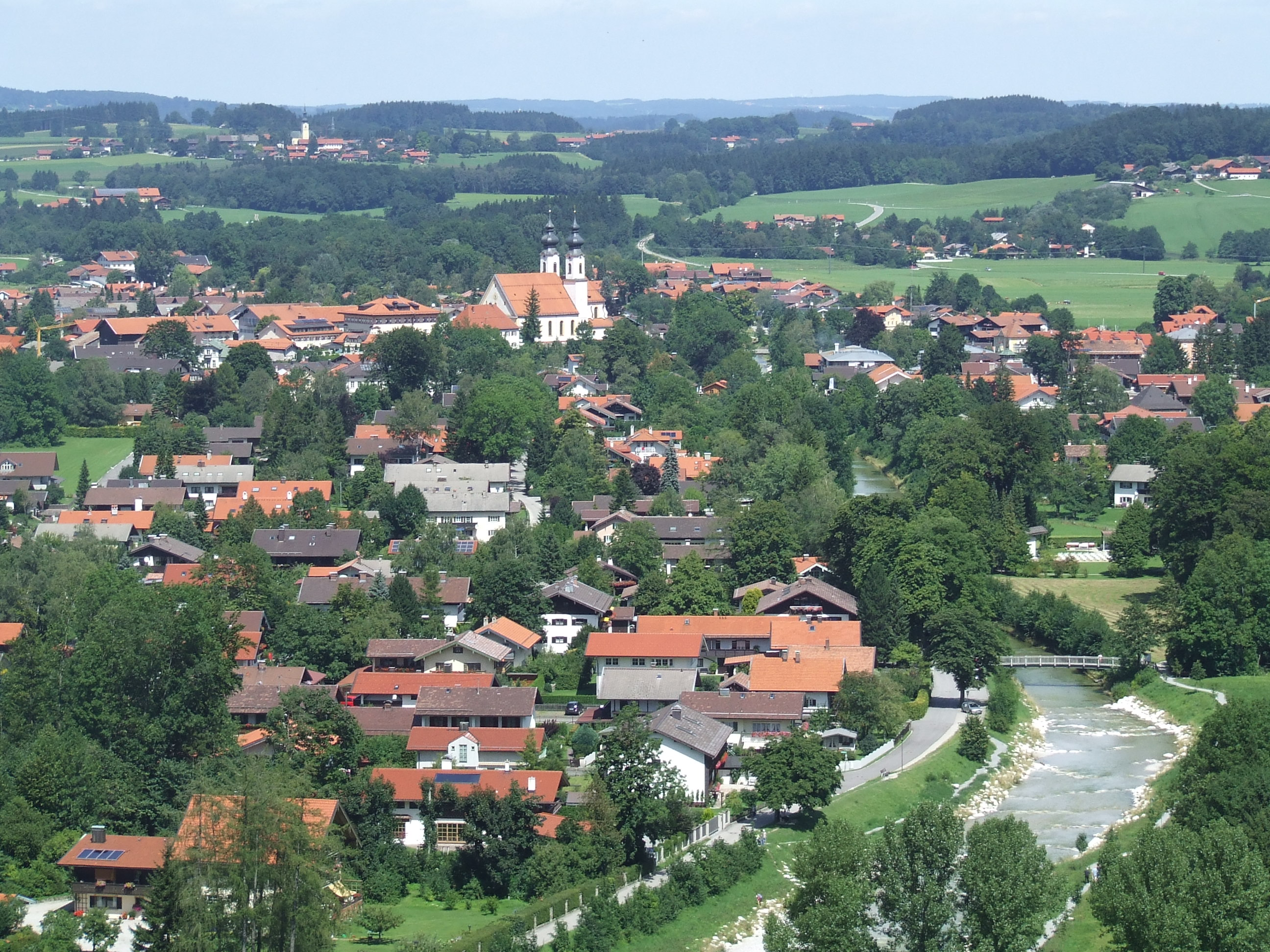 Aschau im Chiemgau, photo taken from Schloss Hohenaschau